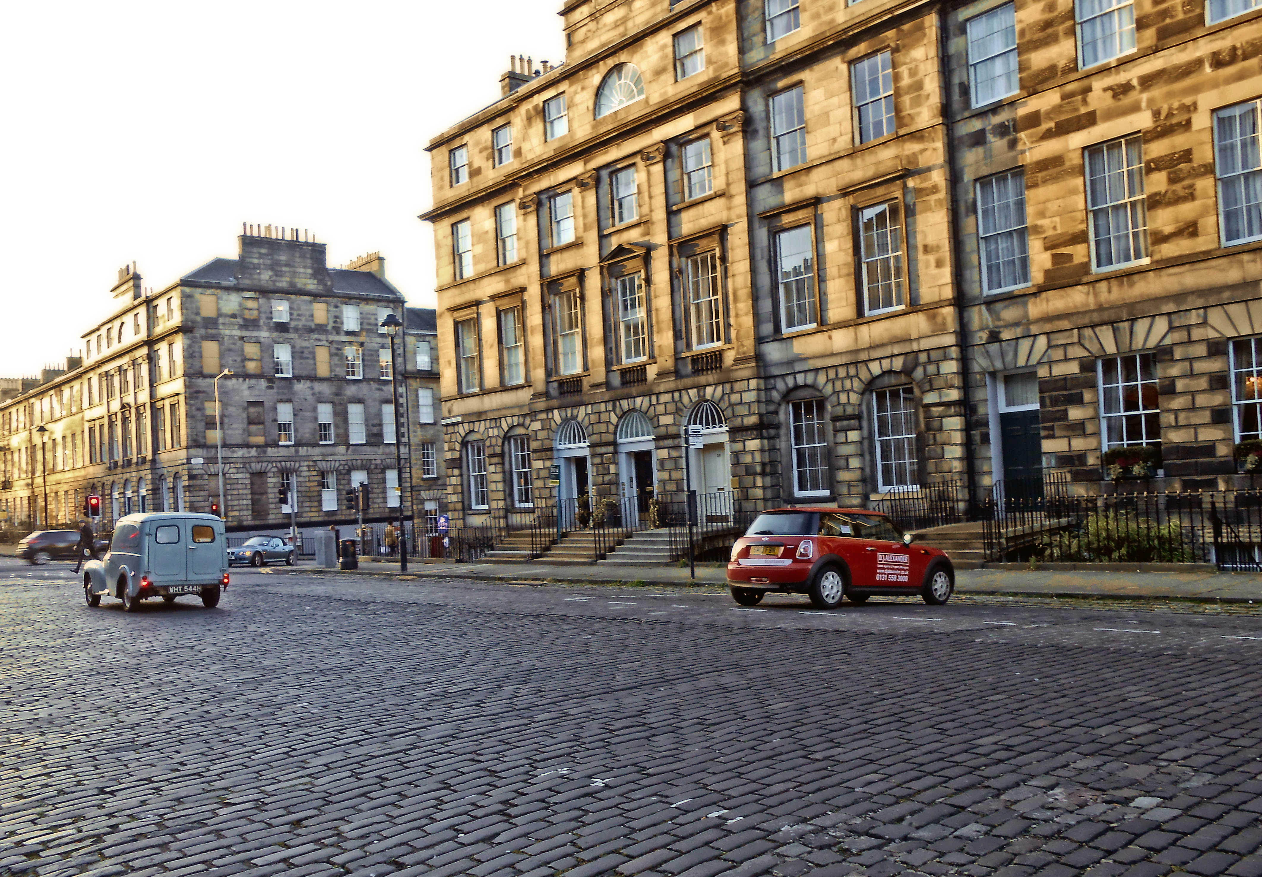 Taken close to sunset and showing the cobblestone surface of the road quite well. Another Edinburgh location to be featured in Ian Rankin's Rebus novels, in this case, the latest one: 'Saints of the Shadow Bible', which I'm reading at the moment. Rebus interviews witness/suspects here in the book; by contrast we were here to stay at the very pleasant Howard Hotel.